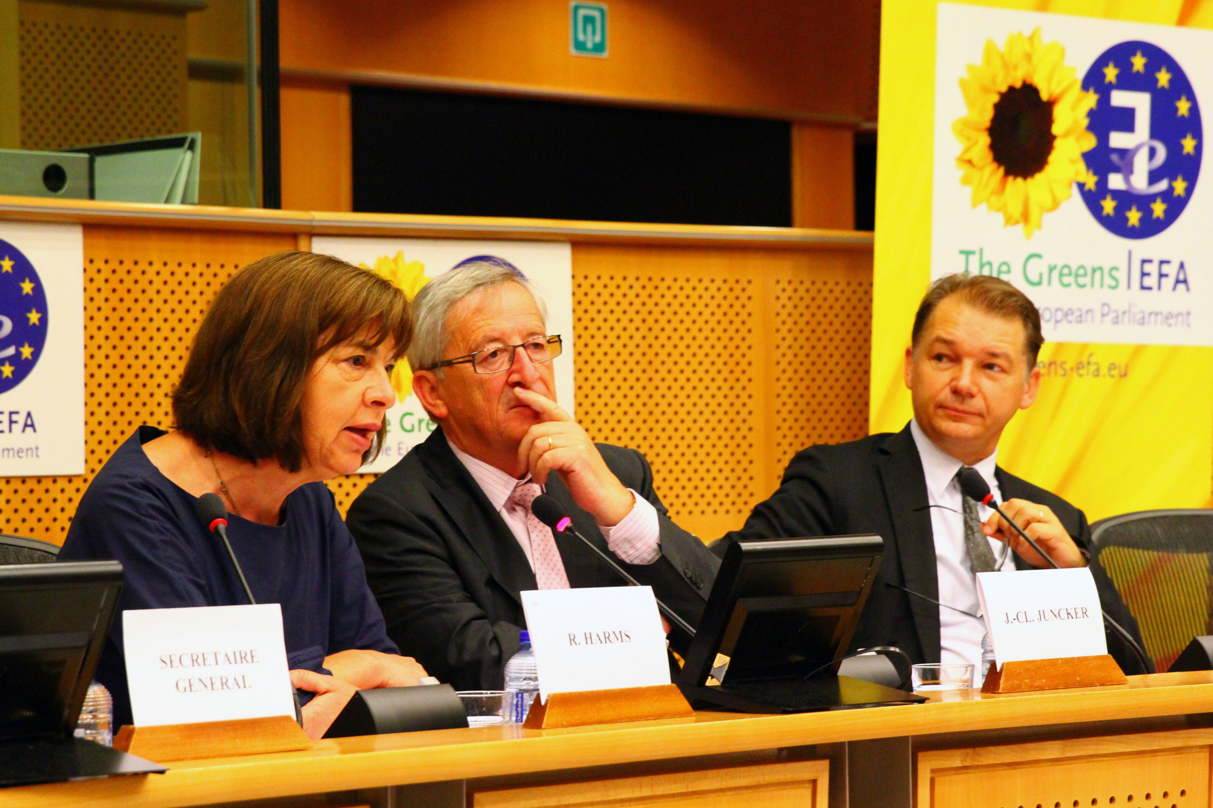 MEPs Harms and Lamberts with Jean-Claude Juncker at a hearing of the Greens/EFA parliamentary group